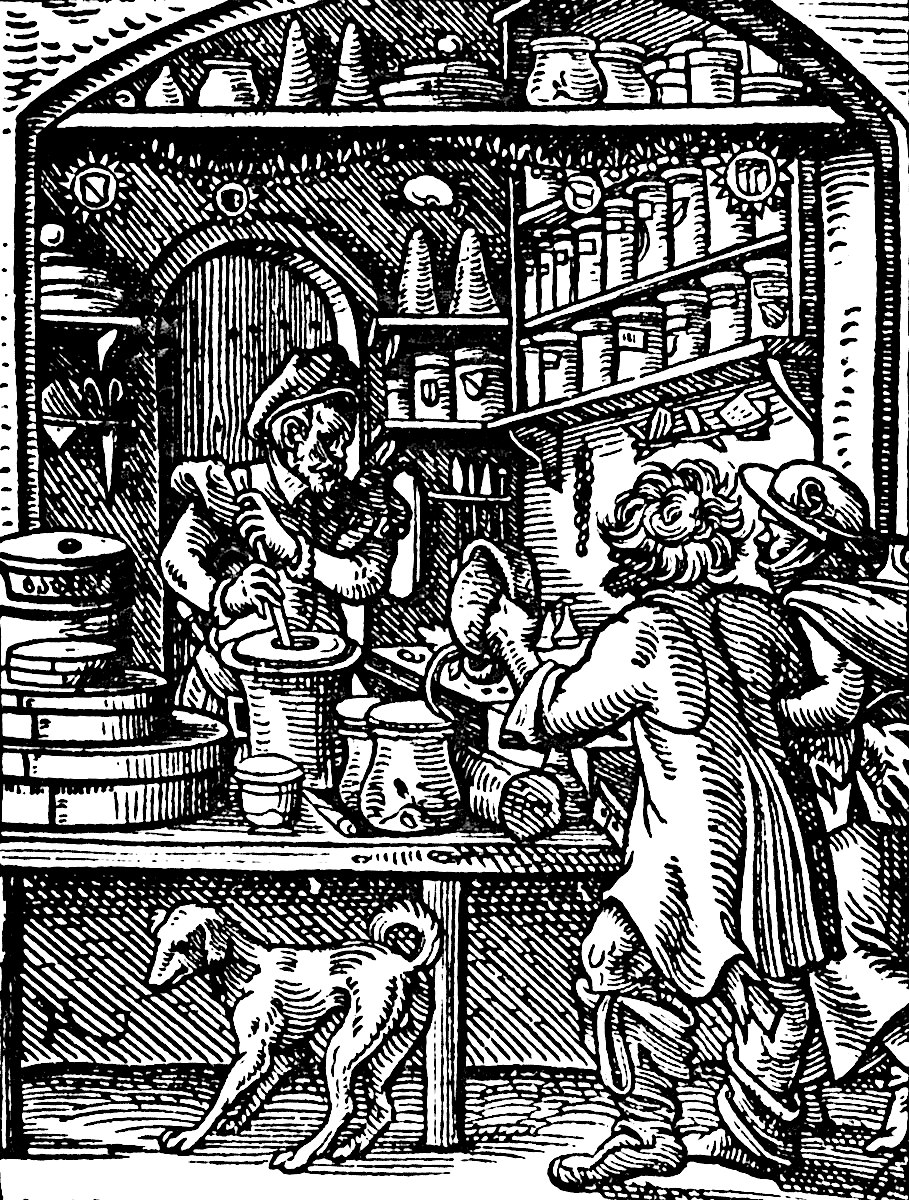 apothecary, historical profession